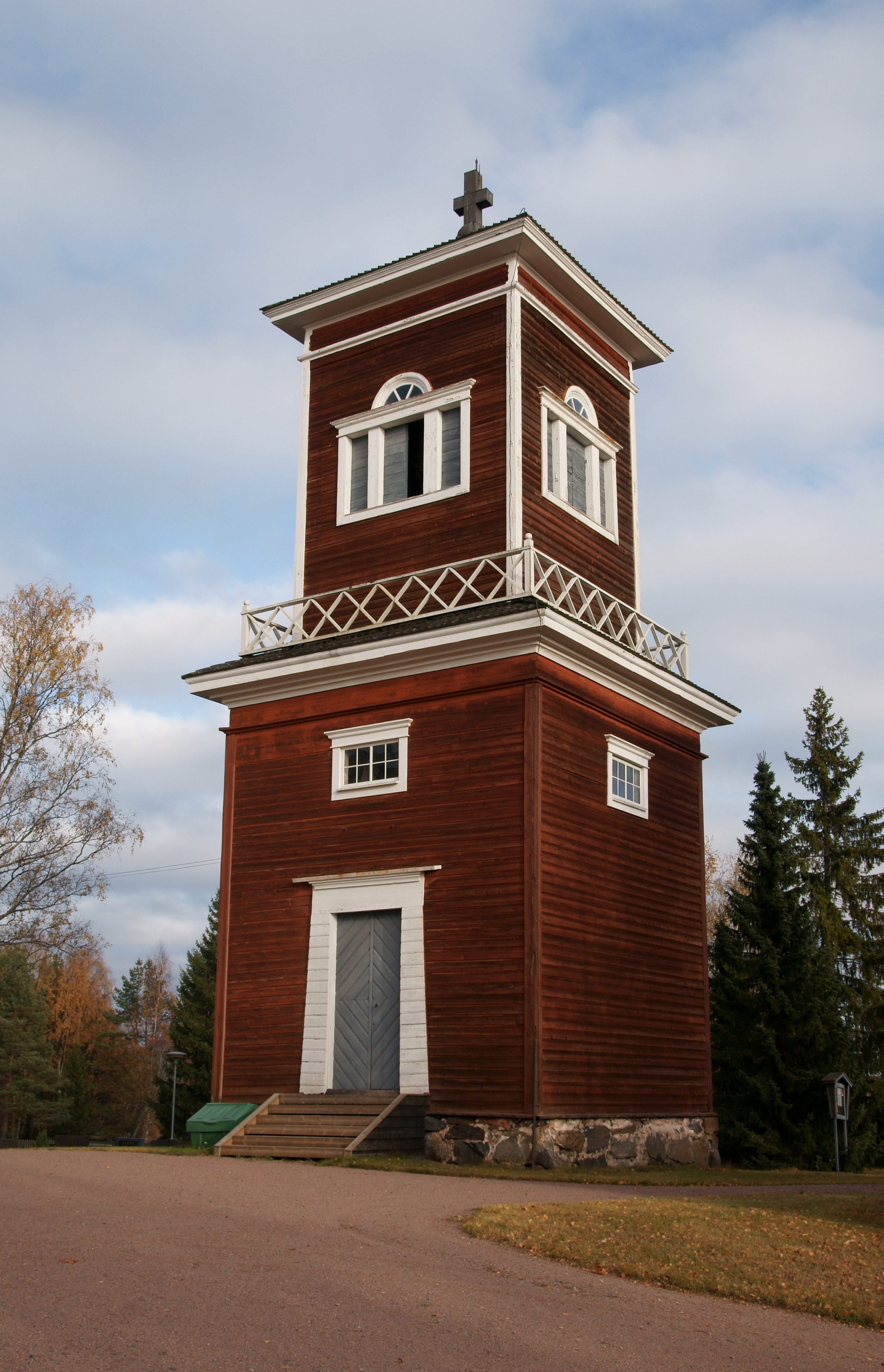 Bell tower of Ahlainen Church in Pori, Finland. Completed in 1832. Architect: Carl Ludvig Engel.